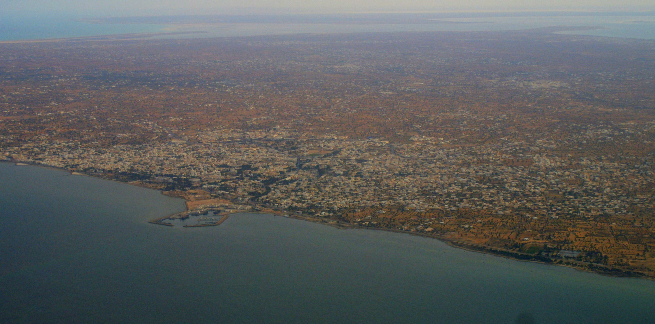 The Houmt Souk city from the air